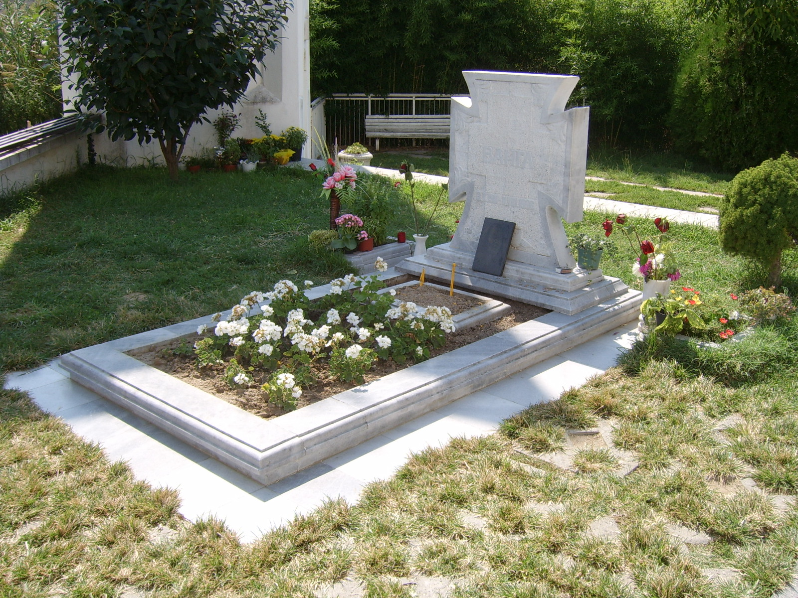 Vanga's grave in Rupite, Bulgaria.